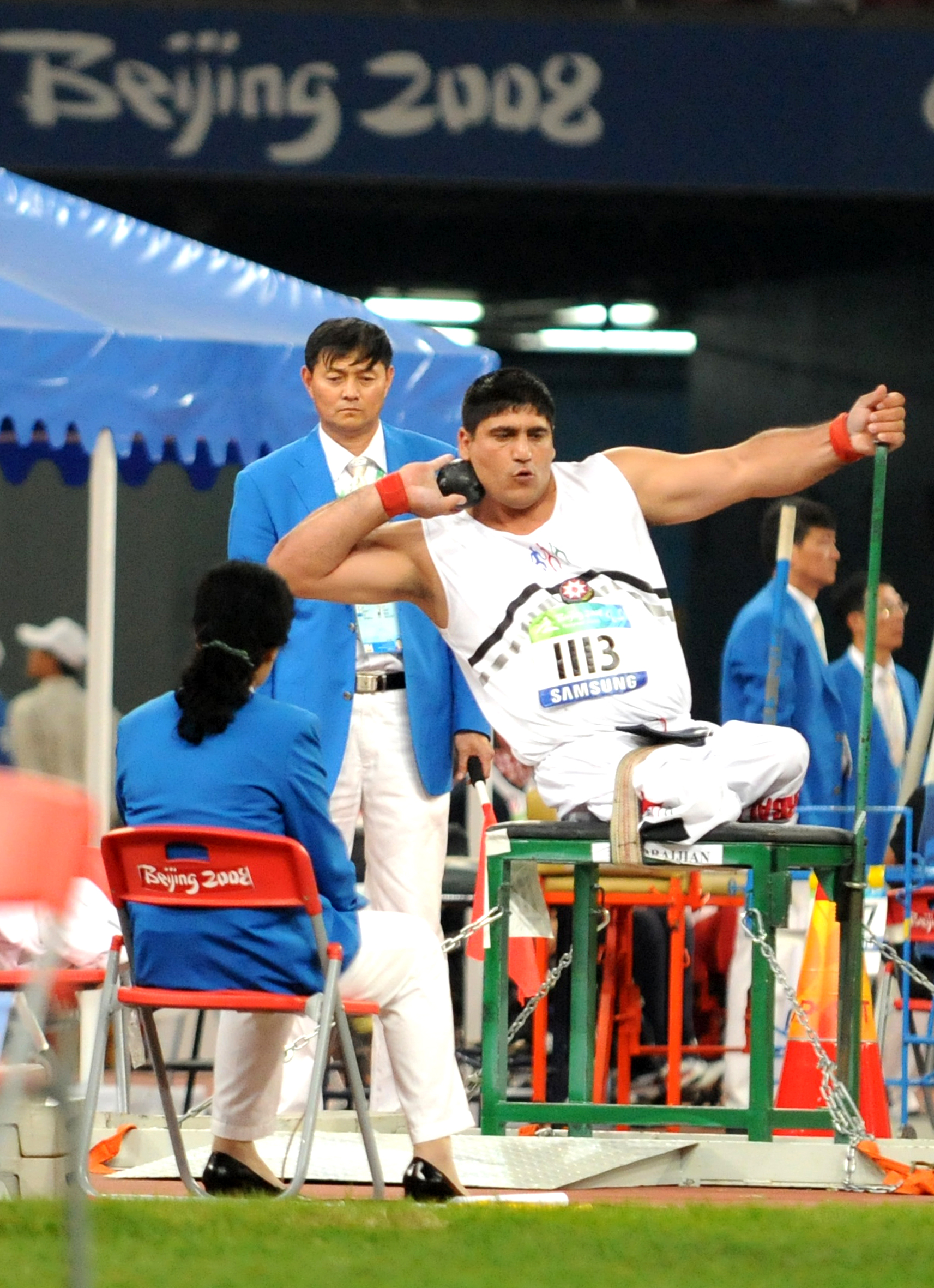 Olokhan Musayev at 2008 Paralympics